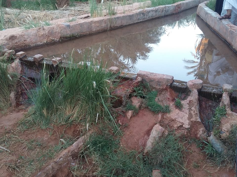 fougara of henou (Traditional method of water distribution in the oasis) inTamentit, Adrar in south west Algeria